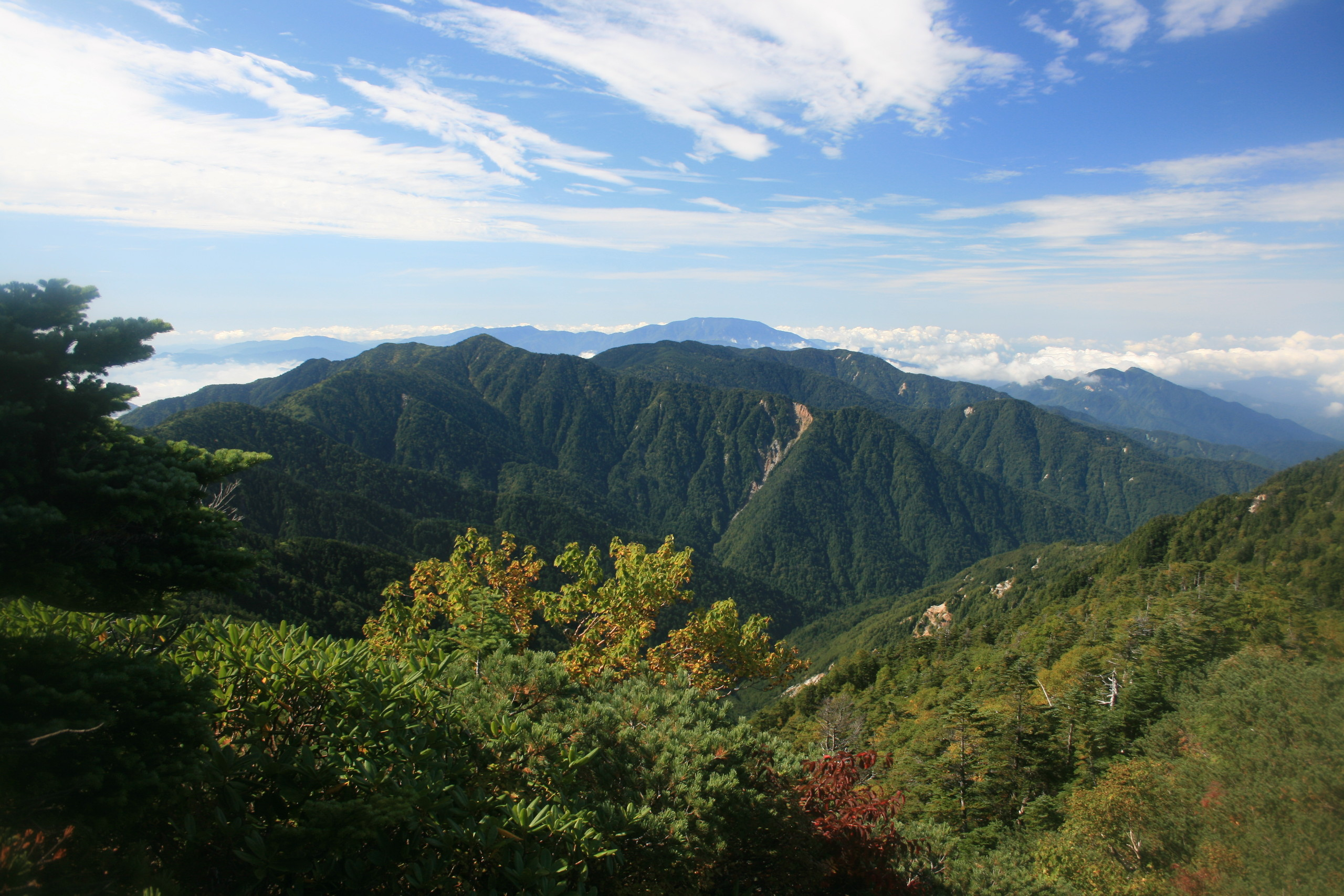 Mount Kosumo